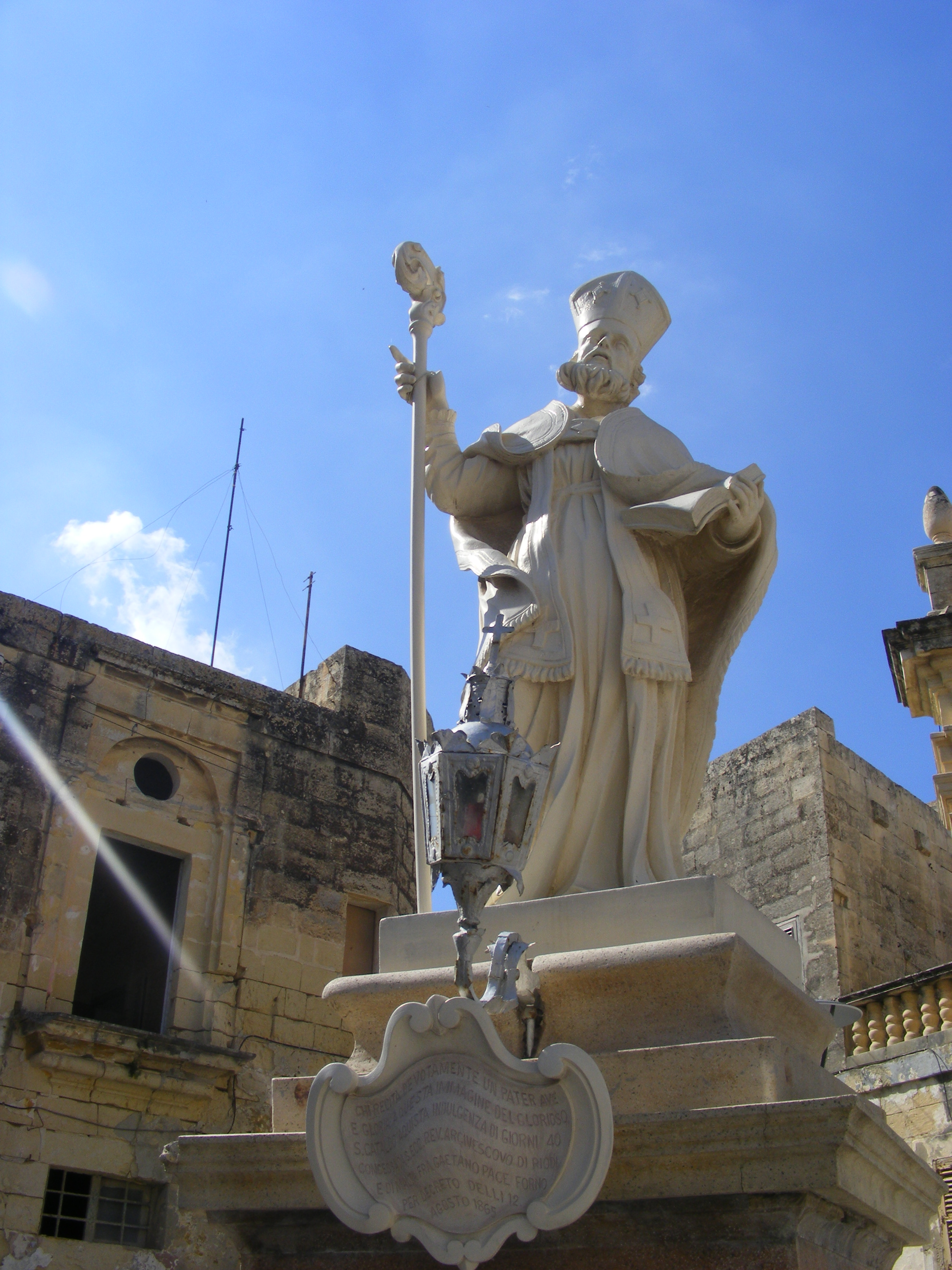 St Catald Church, Rabat, Malta (St Cataldus statue)